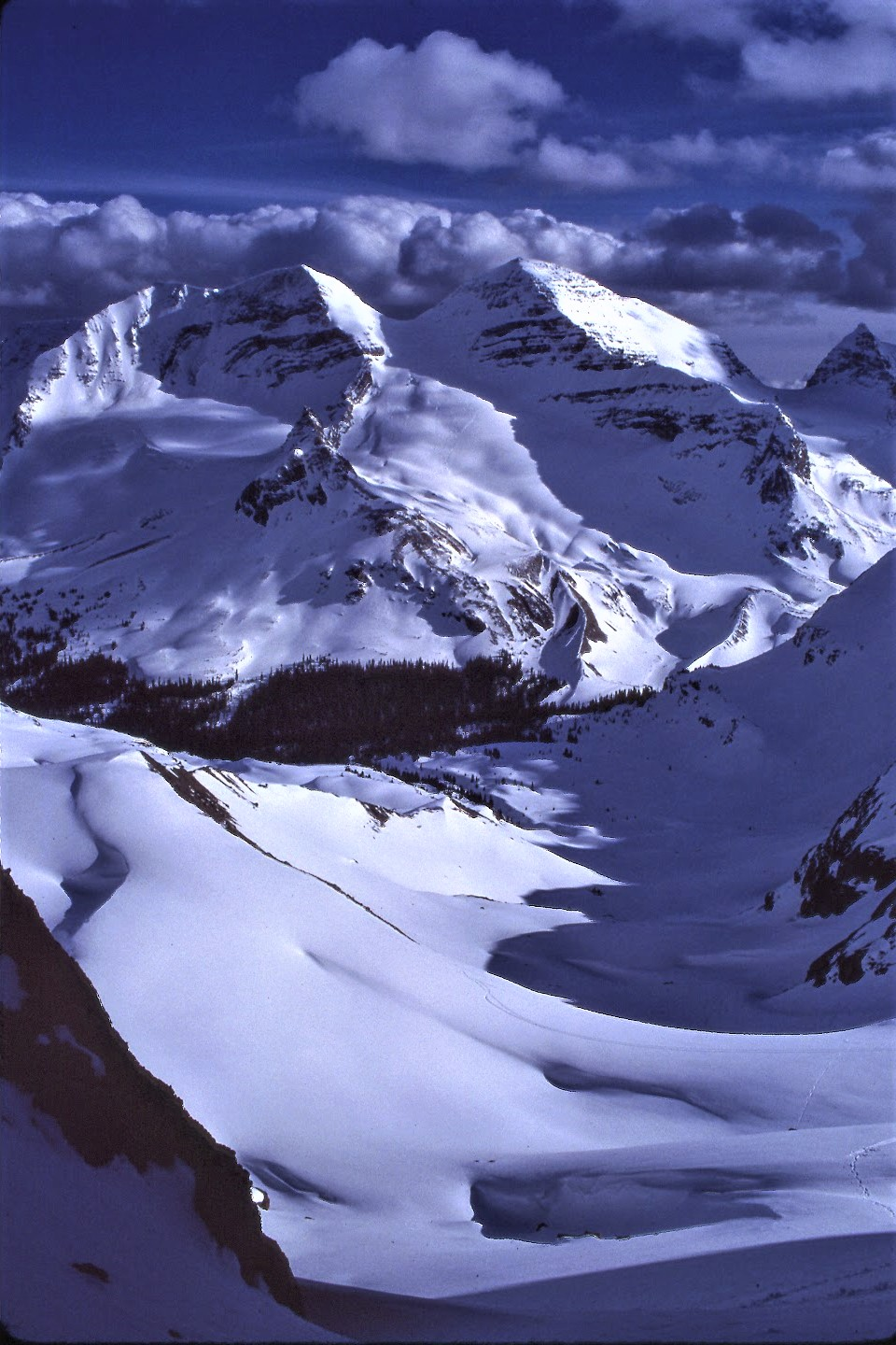 W:The Vice President & The President|President (l-r) from Isolated col for the skiout to the Stanley Mitchell hut on the Wapta E/W traverse.